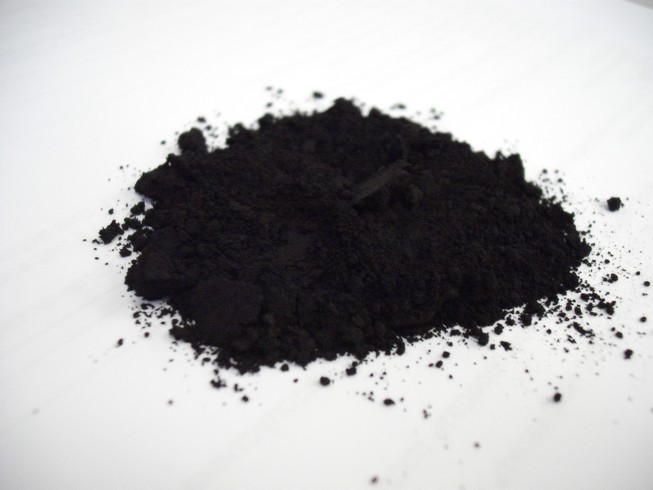 Iron oxide black